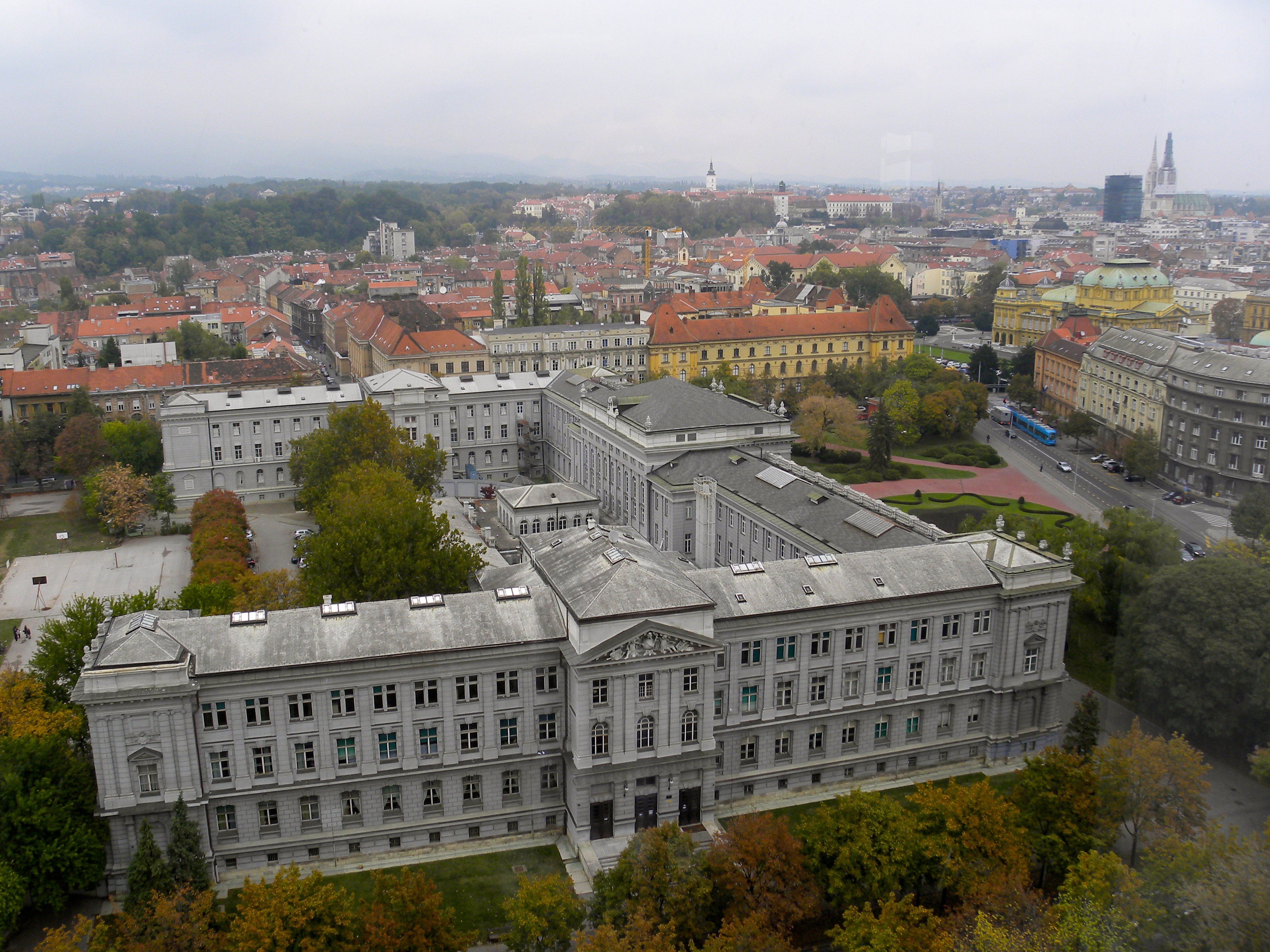 This is the view from the 17th floor conference centre at the Westin Zagreb Hotel. Looking to the NNE. The Mimara Museum is in the foreground..